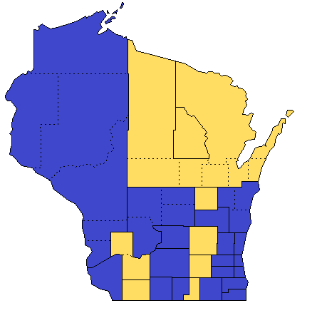 Map of the partisan makeup of the Wisconsin Senate in 1853 Democratic: 17 seats Whig: 8 seats